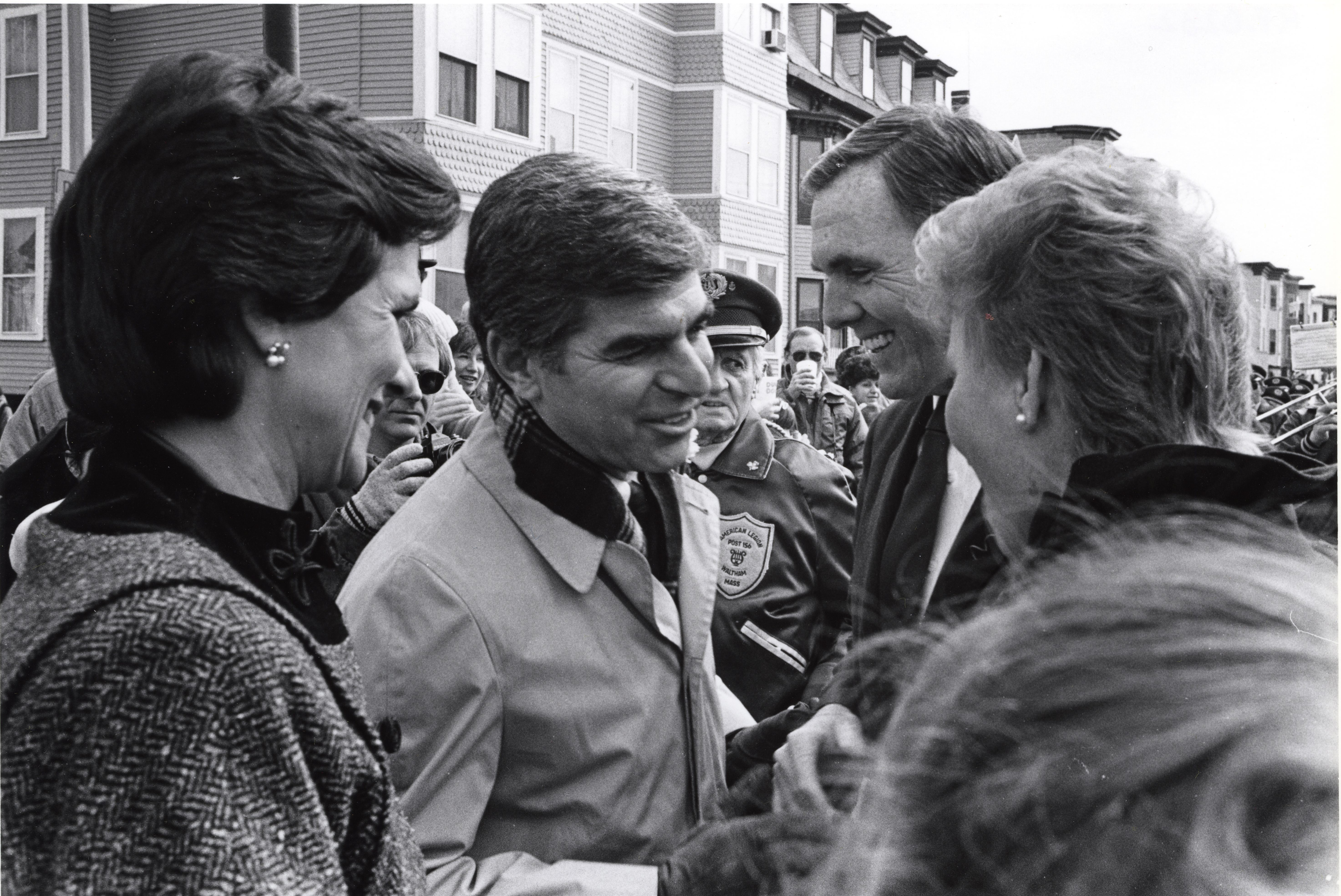 Title: Kitty Dukakis, Governor Michael Dukakis, Mayor Raymond L. Flynn and Kathy Flynn at Evacuation - St. Patrick's Day parade Creator: Mayor's Office - City Photographer Date: circa 1987 Source: Mayor Raymond L. Flynn records, Collection #0246.001 File name: RF_0282 Rights: Copyright City of Boston Citation: Mayor Raymond L. Flynn records, Collection #0246.001, City of Boston Archives, Boston